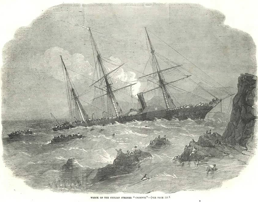 Sinking of the Chilean steamer "Cazador" in Punta Carranza, near Constitucion, Chile